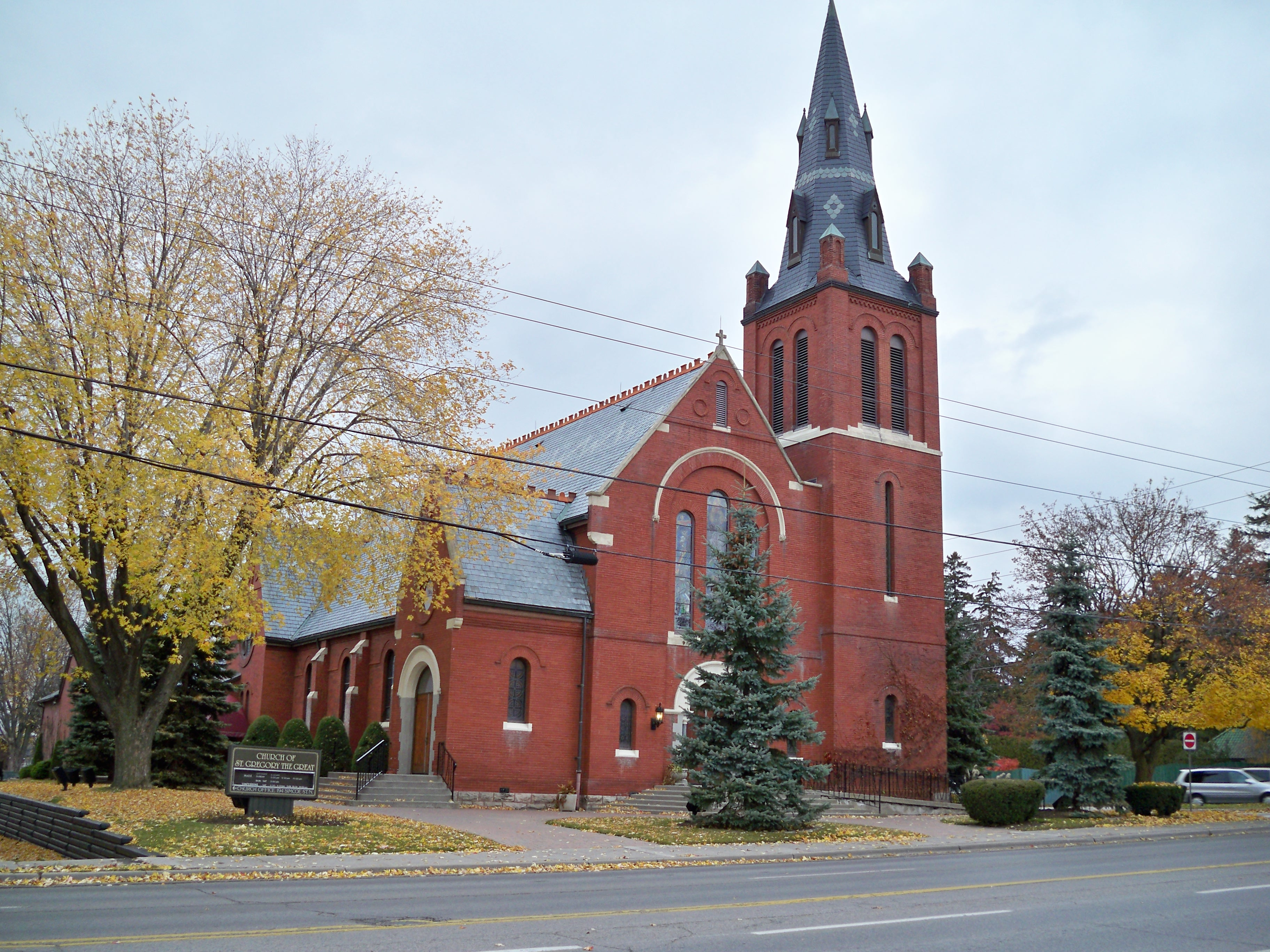 St. Gregory the Great Catholic Church, first Catholic in Durham Region.